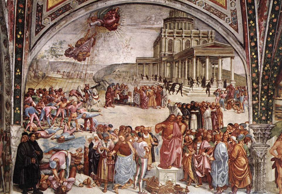 SIGNORELLI, Luca Sermon and Deeds of the Antichrist Fresco Chapel of San Brizio, Duomo, Orvieto